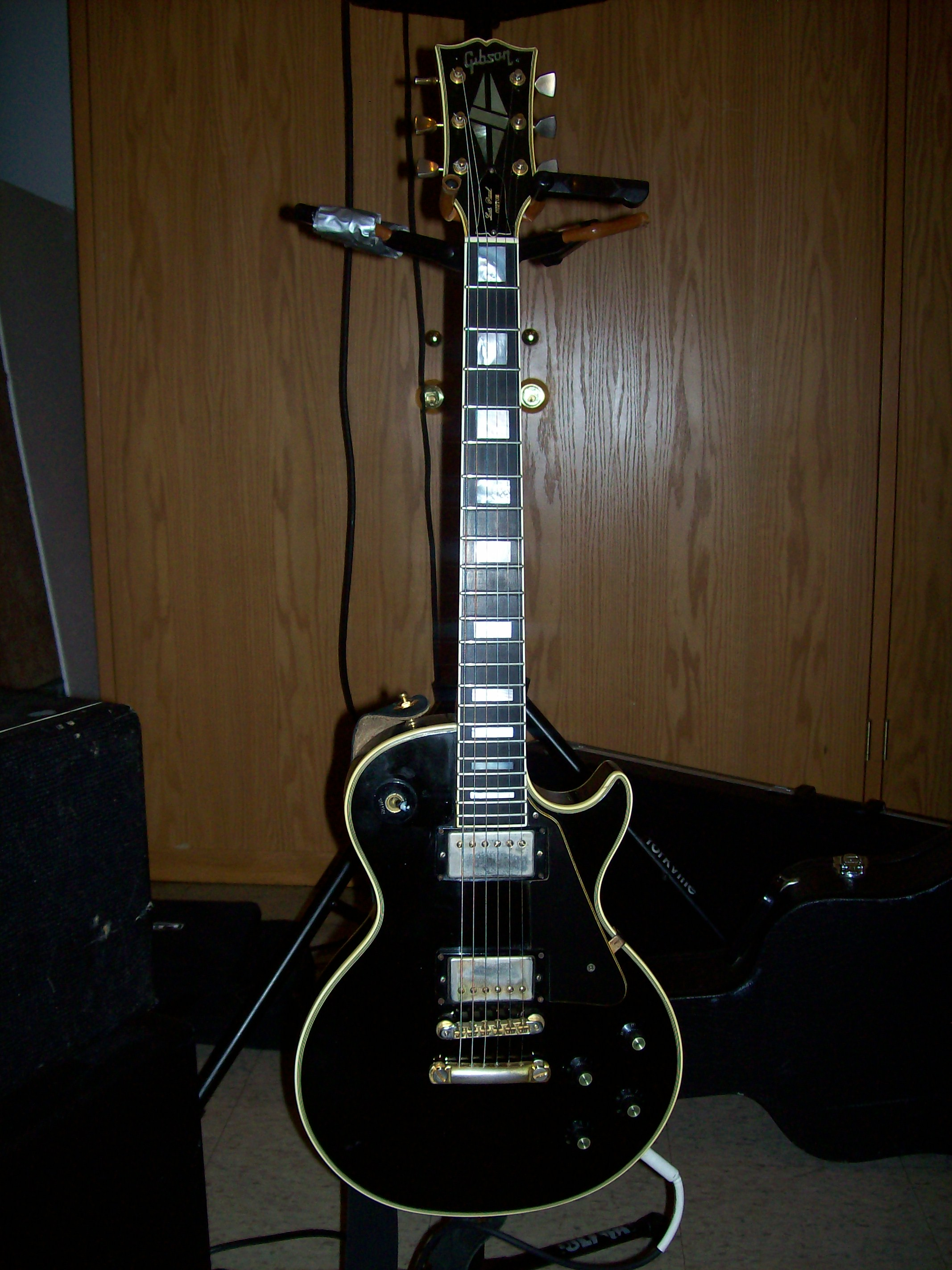 A 1974 Gibson Les Paul Custom guitar.